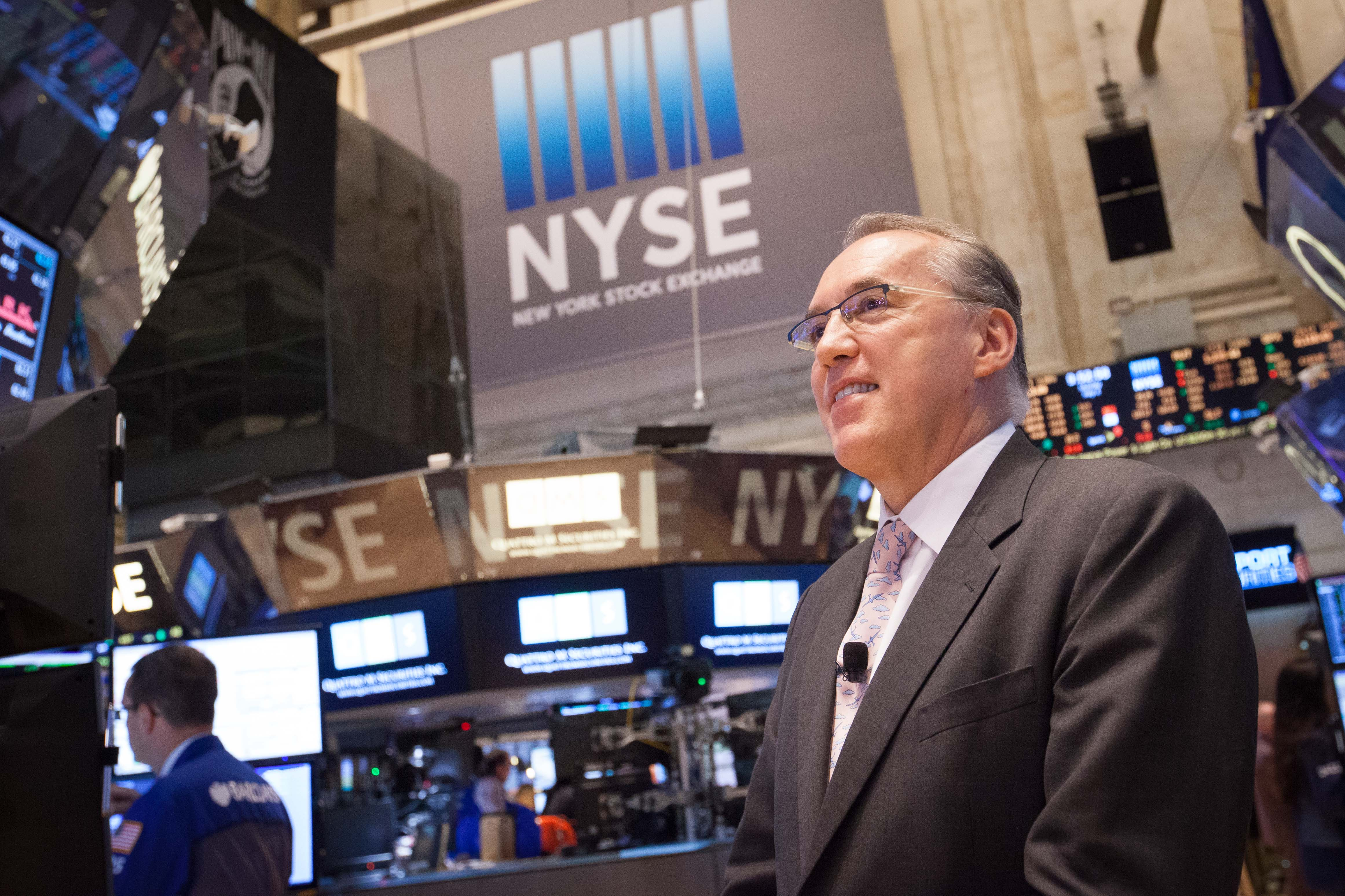 Frank E. Holmes, CEO and chief investment officer of U.S. Global Investors, visits the New York Stock Exchange in April 2015 for the launch of the U.S. Global Jets ETF (JETS).